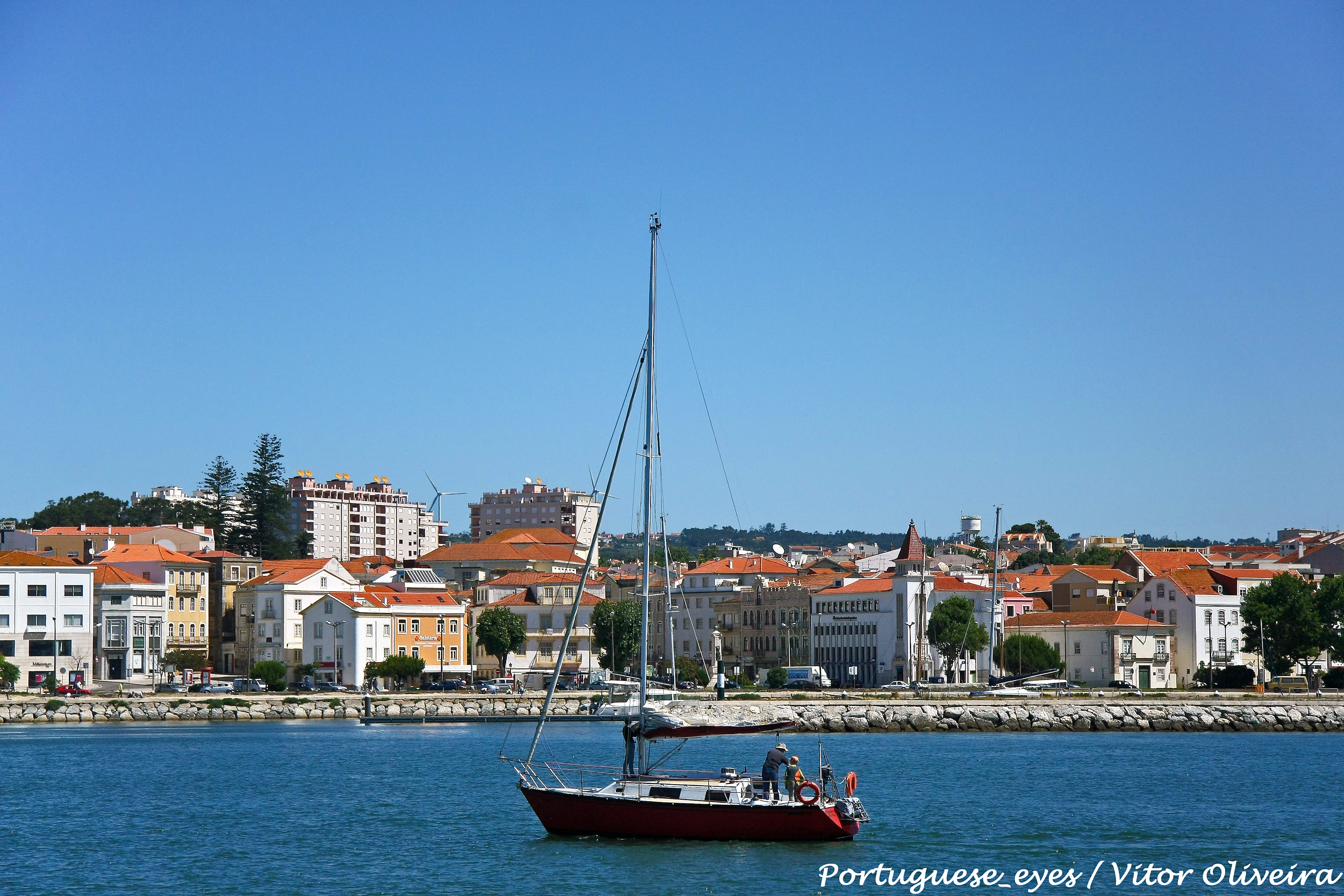 See where this picture was taken. [?]